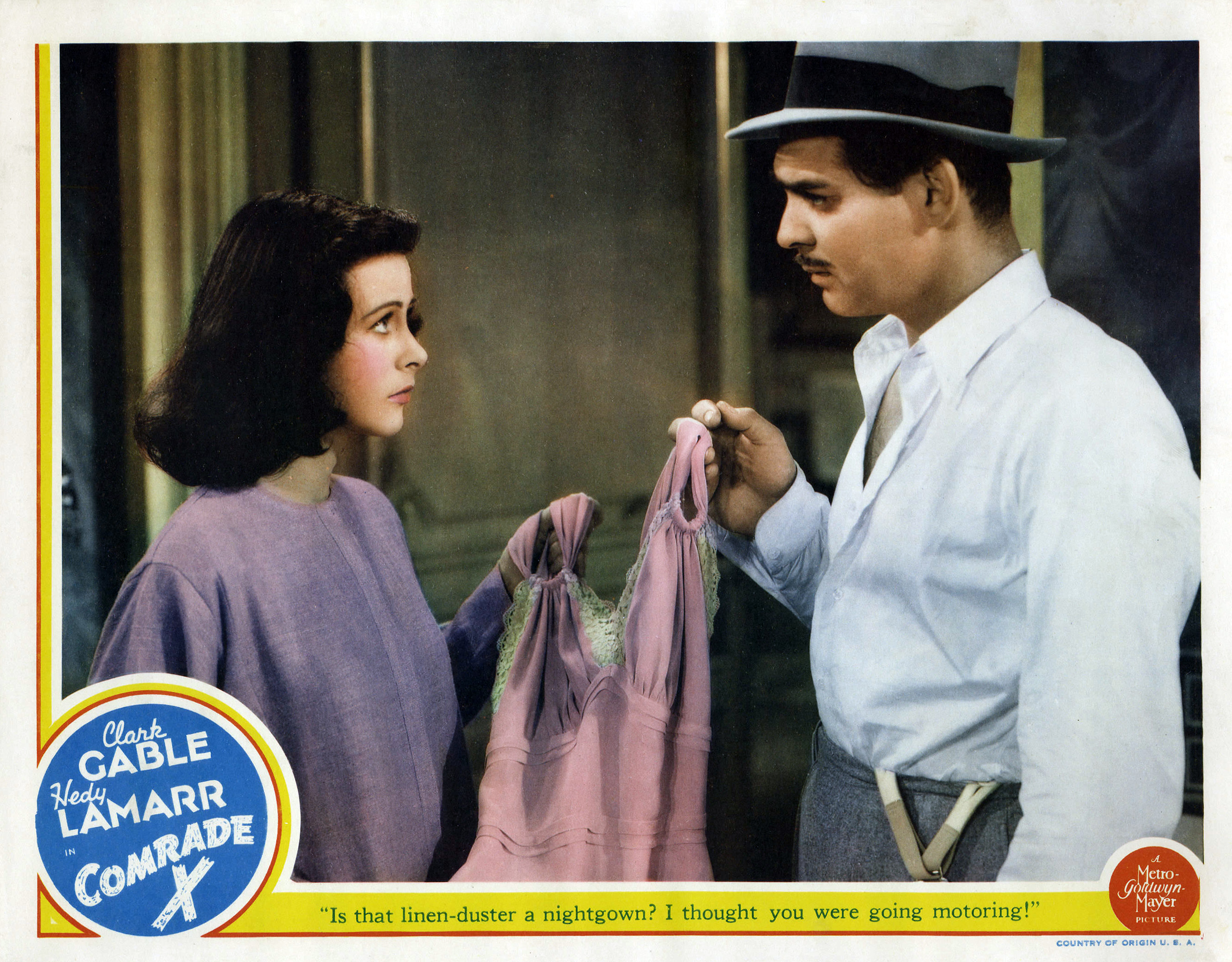 Lobby card from the 1940 film Comrade X.